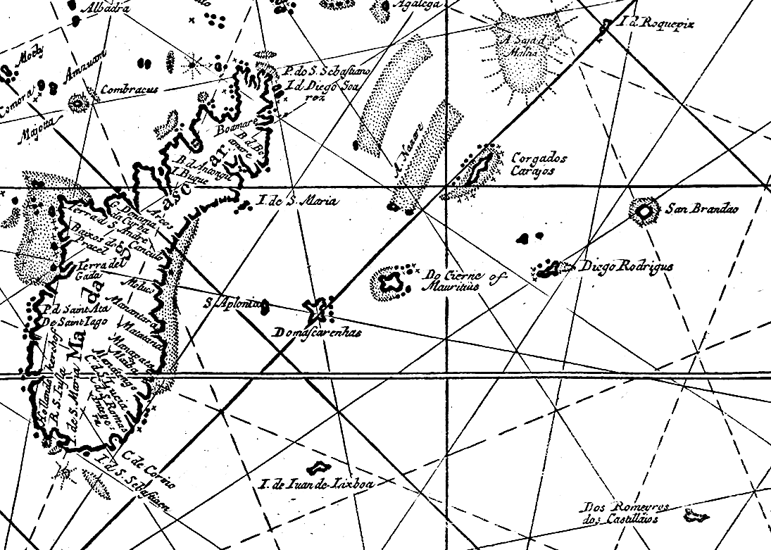 Detail of an antique map of Far East, Australia by van Keulen, showing the Mascarene Islands and two ghost islands: Juan de Lisboa and dos Romeiros